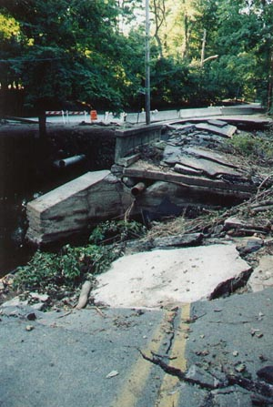 Briarcliff Manor, NY, 09/16/1999 -- The flood-swollen Pocantico River in Westchester County destroyed this 75-year-old Beech Hill Road bridge in Briarcliff Manor. Photo by Michael Raphael/FEMA News Photo